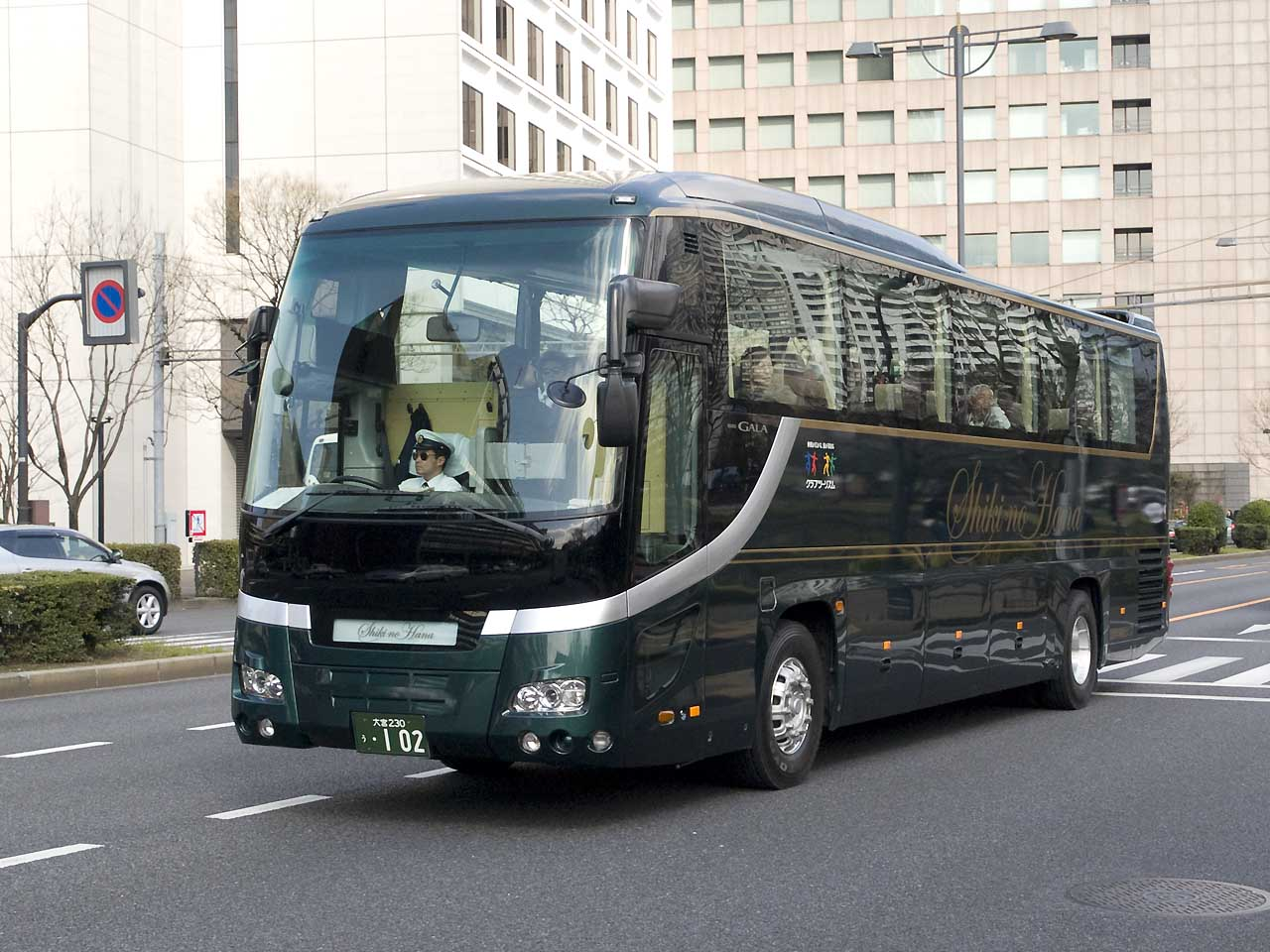 Fleet of Kokusai Kogyo Kankobus, special car for Club Tourism tour "Shiki no Hana". Model: Isuzu Gala RU1ESAJ License plate: STO230 U-102 Place: Hitotsubashi, Chiyoda ward, Tokyo Japan